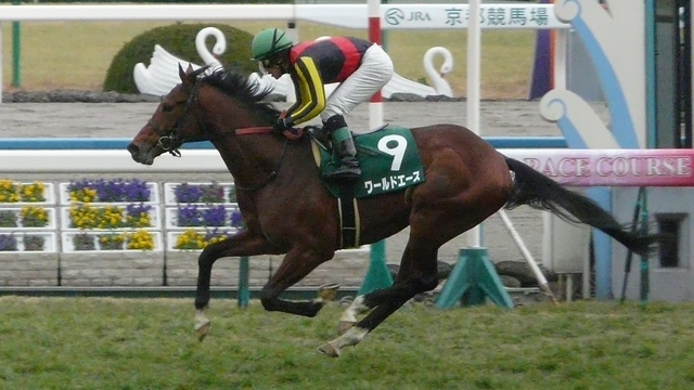 World-Ace20120205(1)